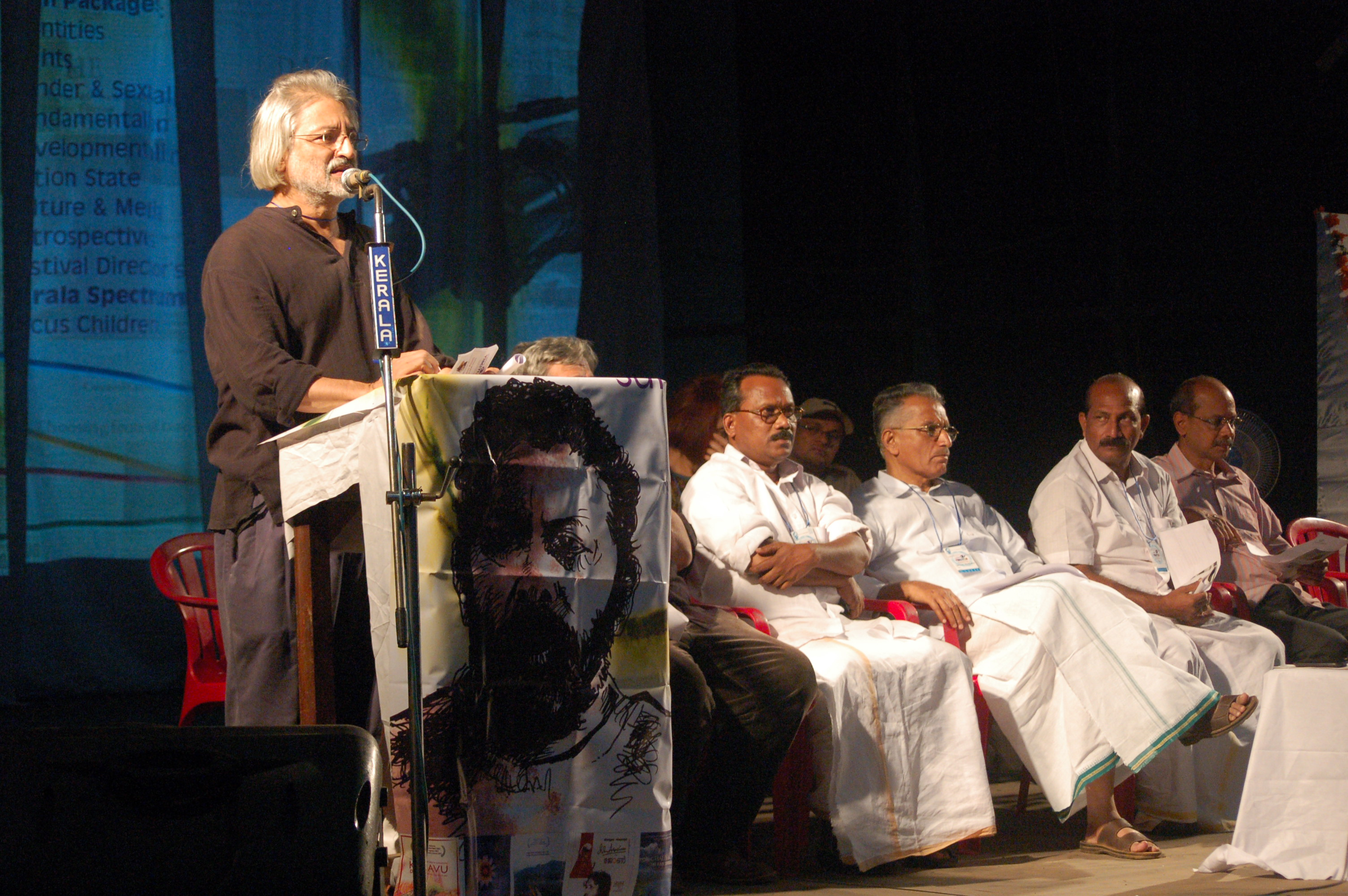 Anand Patwardhan, Eminant Indian documentary filmmaker, speaking in ViBGYOR Festival 2011